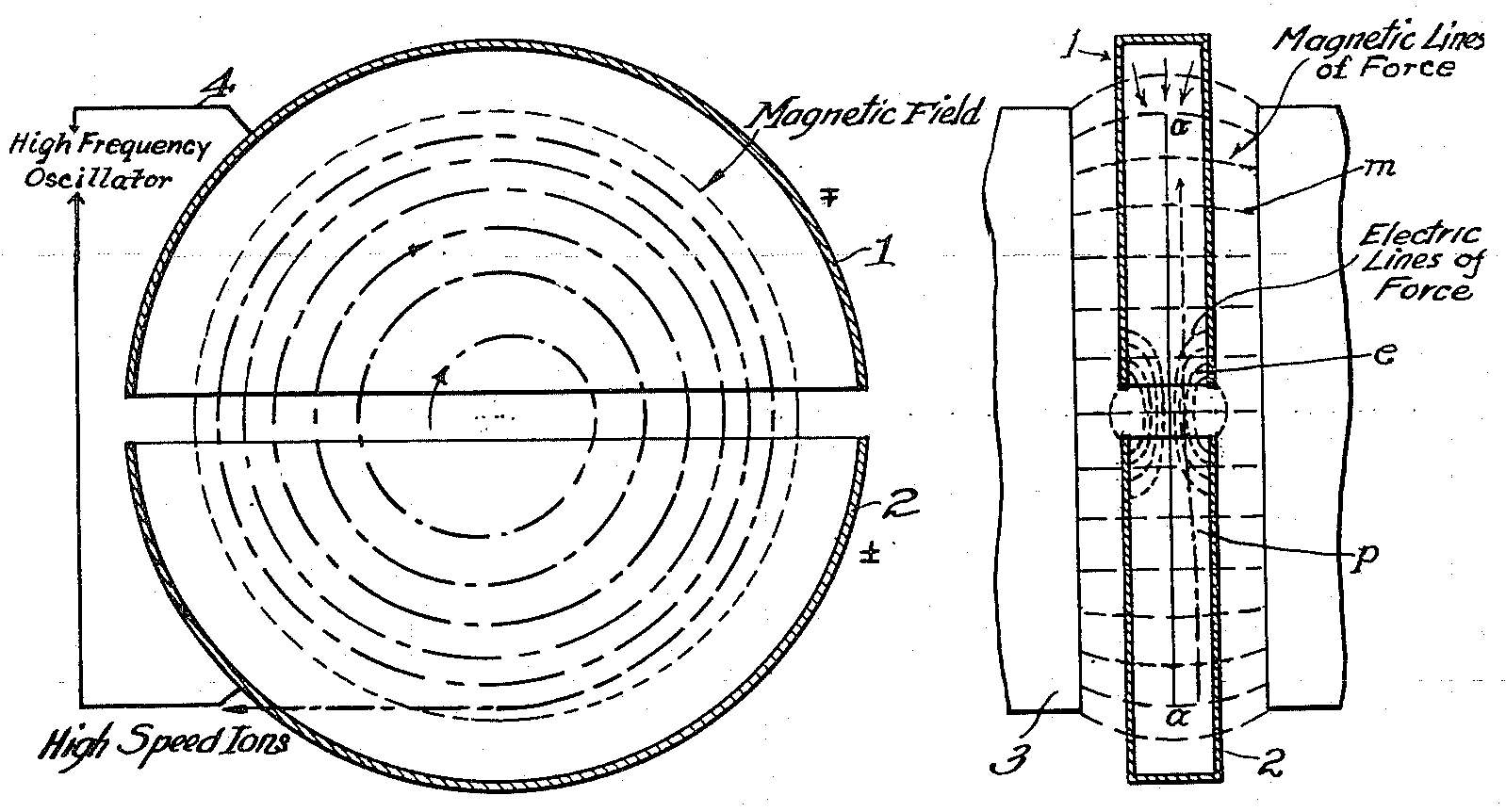 Image of the principles of a cyclotron.